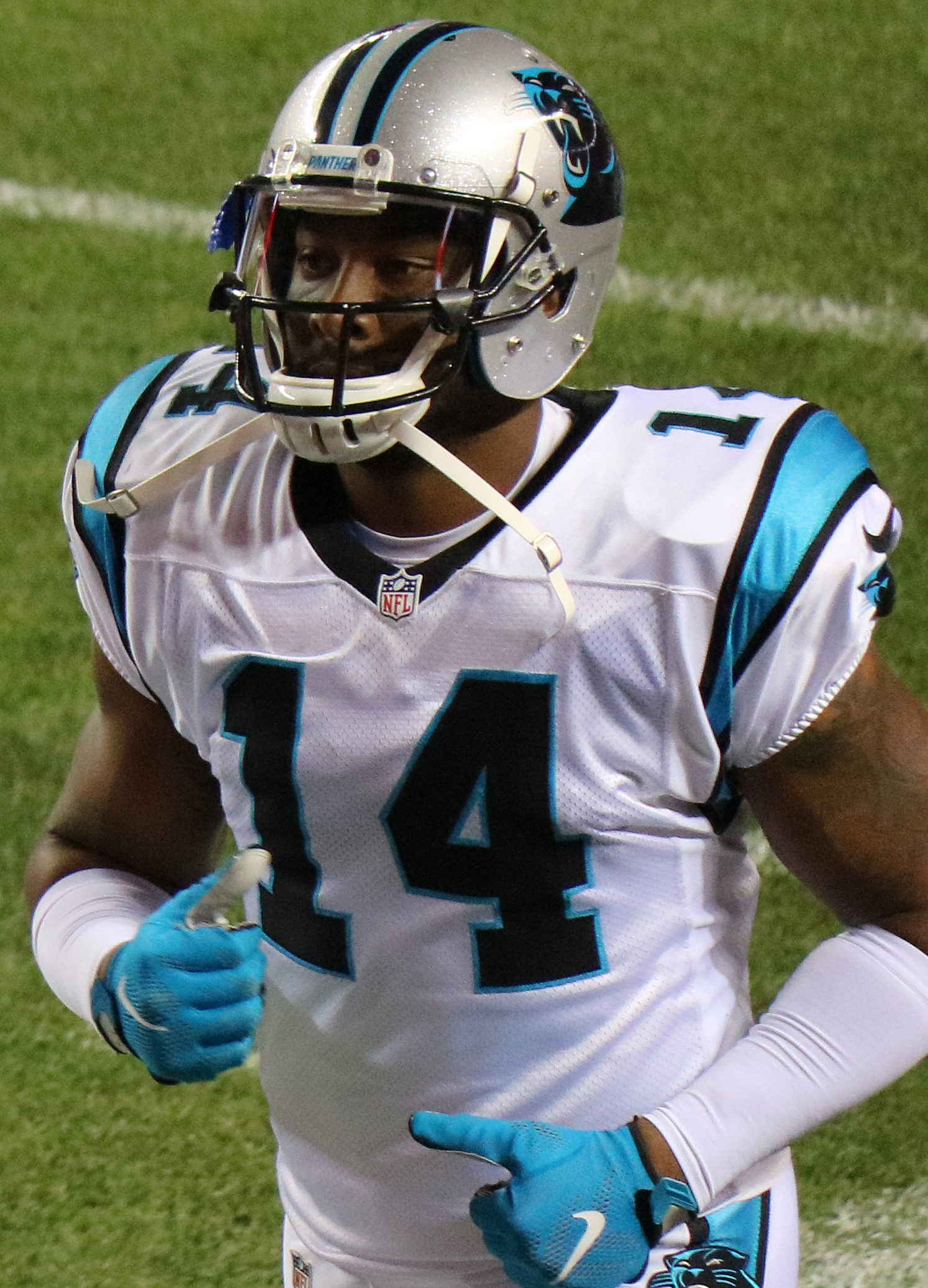 Joe Webb, a player on the National Football League.